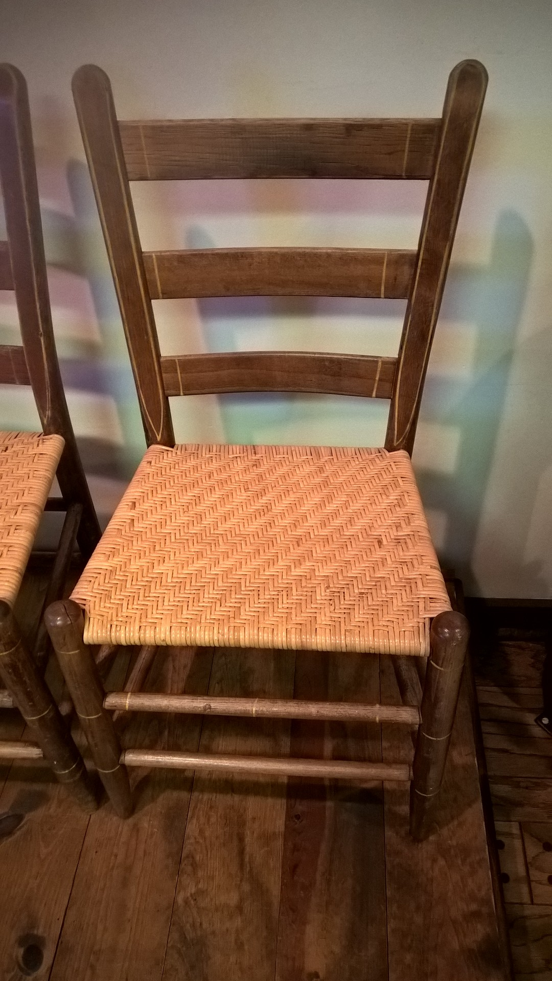 A typical Ladderback chair, distinguished by its multiple horizontal spindles across its back, which resembles a ladder. This photo was taken at the Hancock County Museum.